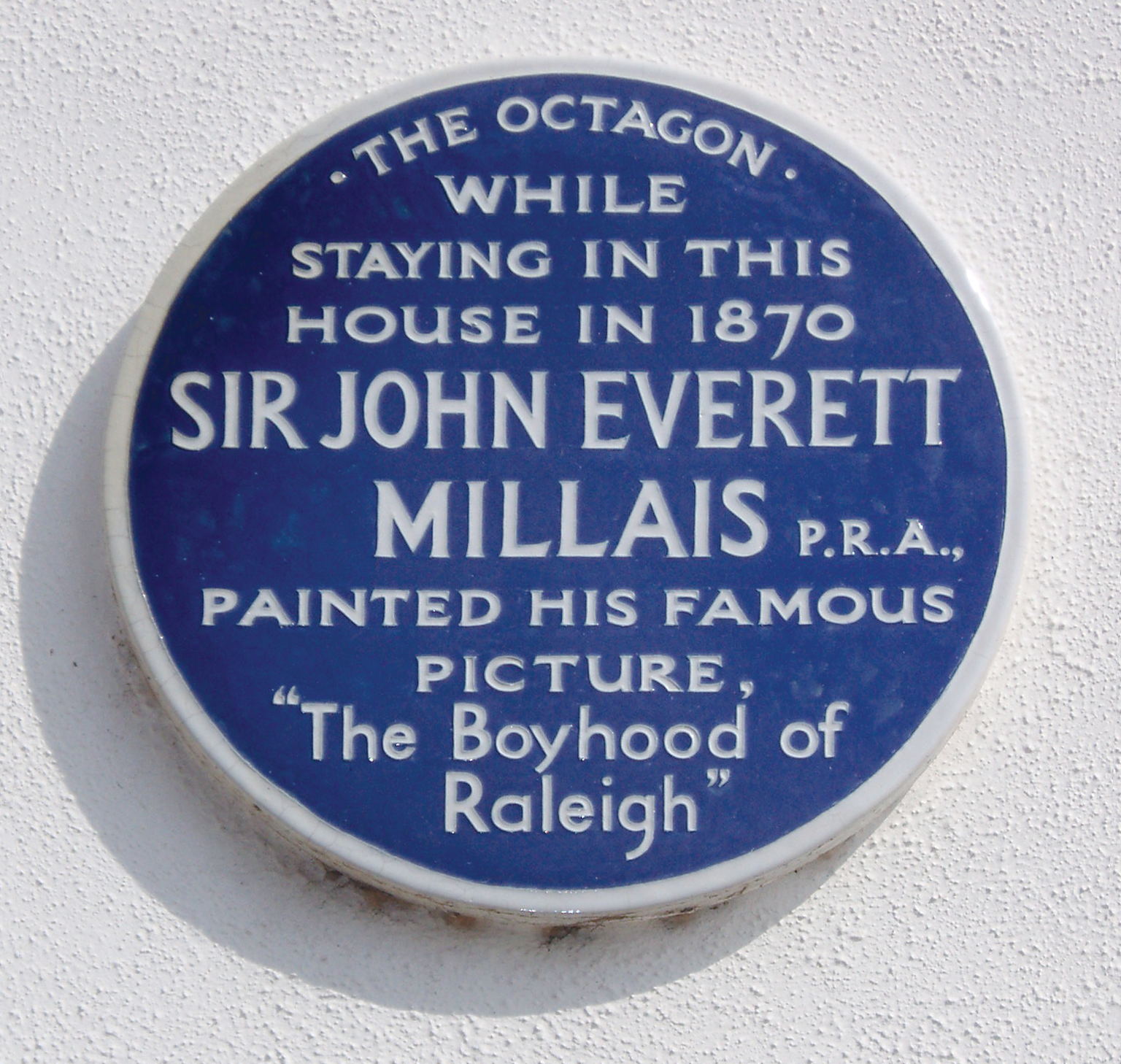 Blue plaque affixed to The Octagon in Budleigh Salterton, Devon. Legend: The Octagon. While staying in this house in 1870 Sir John Everett Millais P.R.A., painted his famous picture, "The Boyhood of Raleigh"